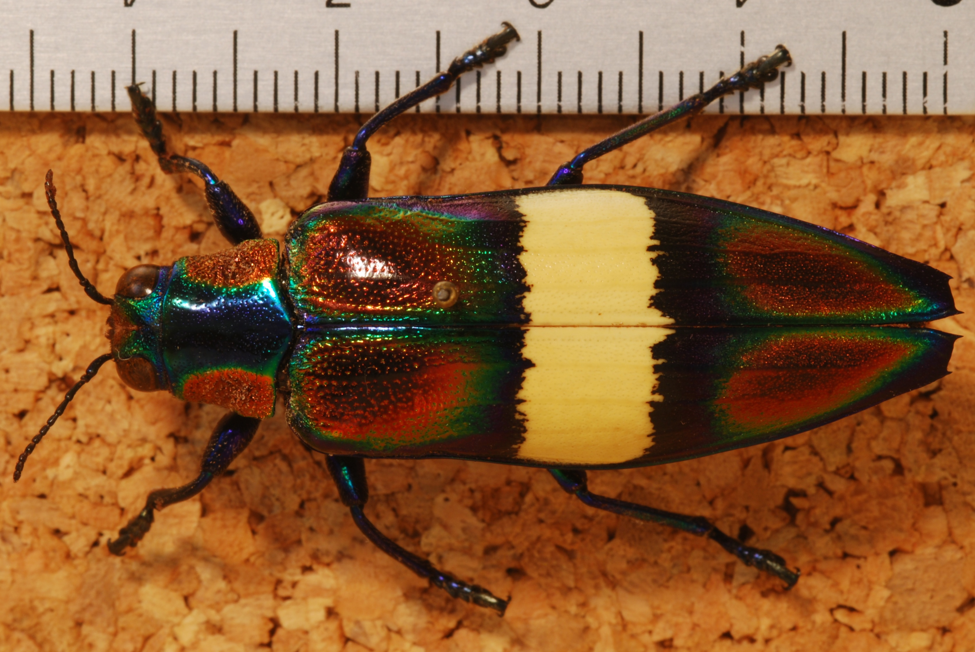 Cameron Highlands, MALAYSIA